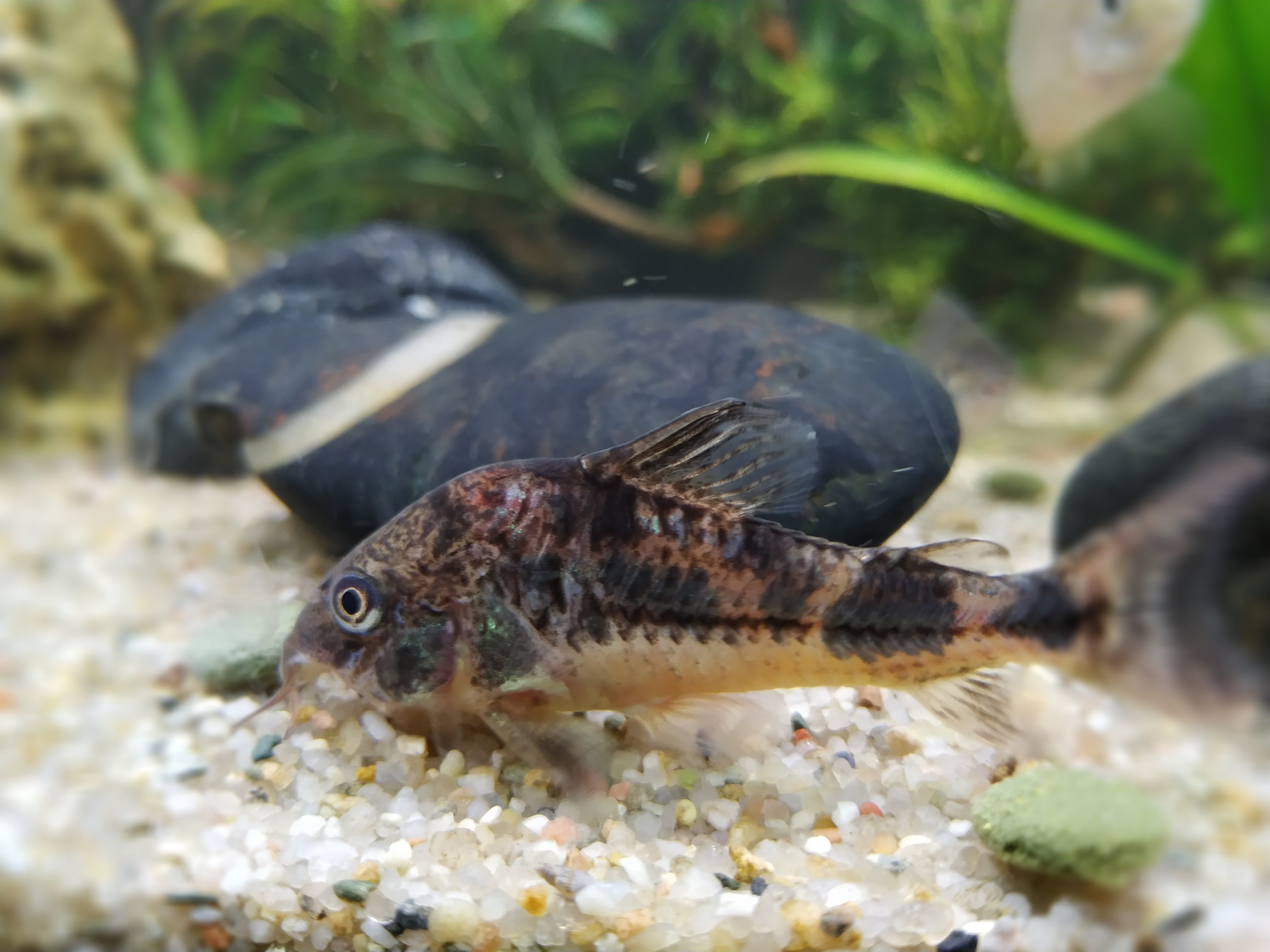 Corydoras paleatus